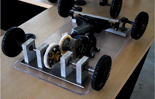 Manual Bot